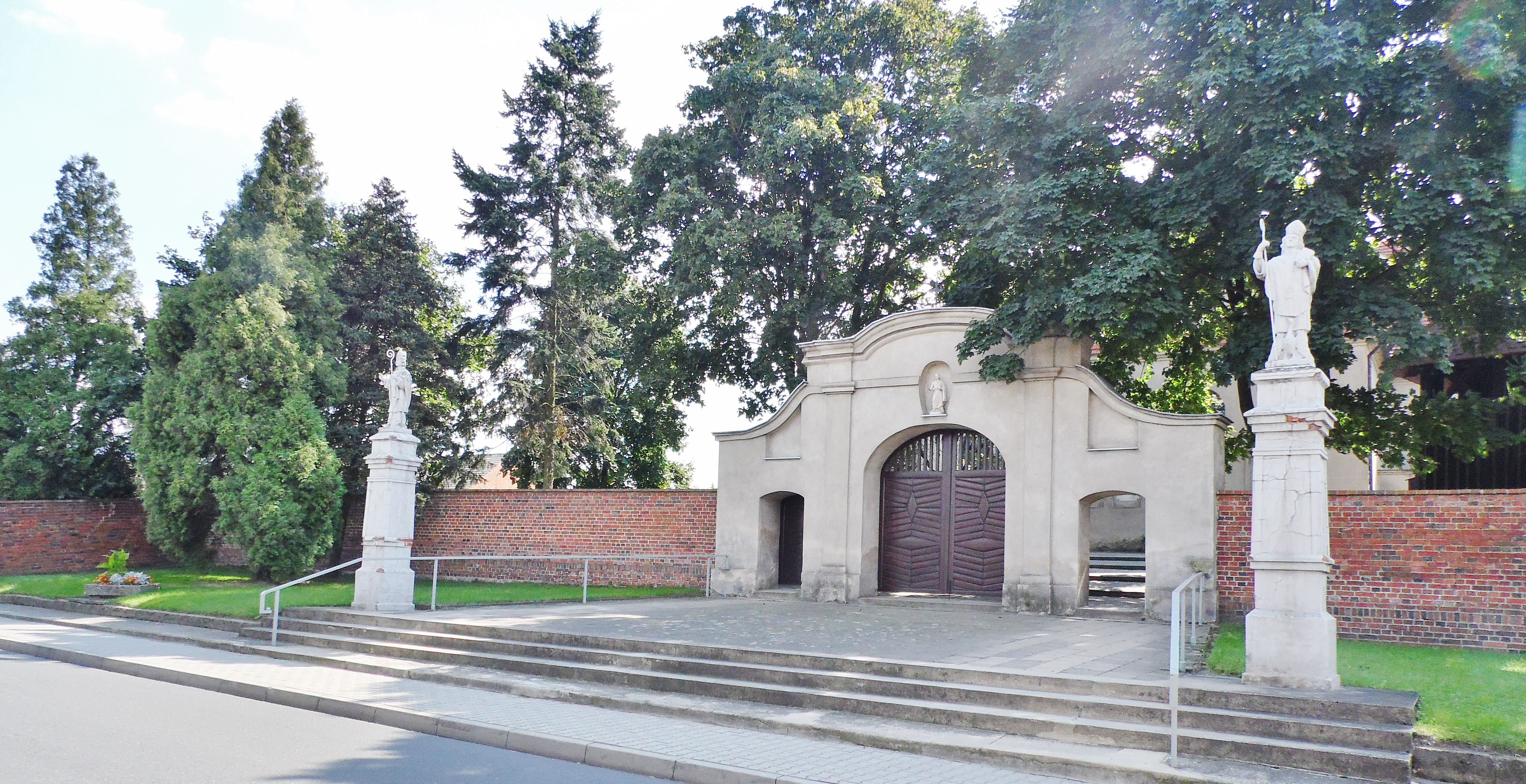 Parish Church. St. Martin from 1825: Gateway Church - BUKOWIEC Top / Leszno district / province. Greater Poland / Poland